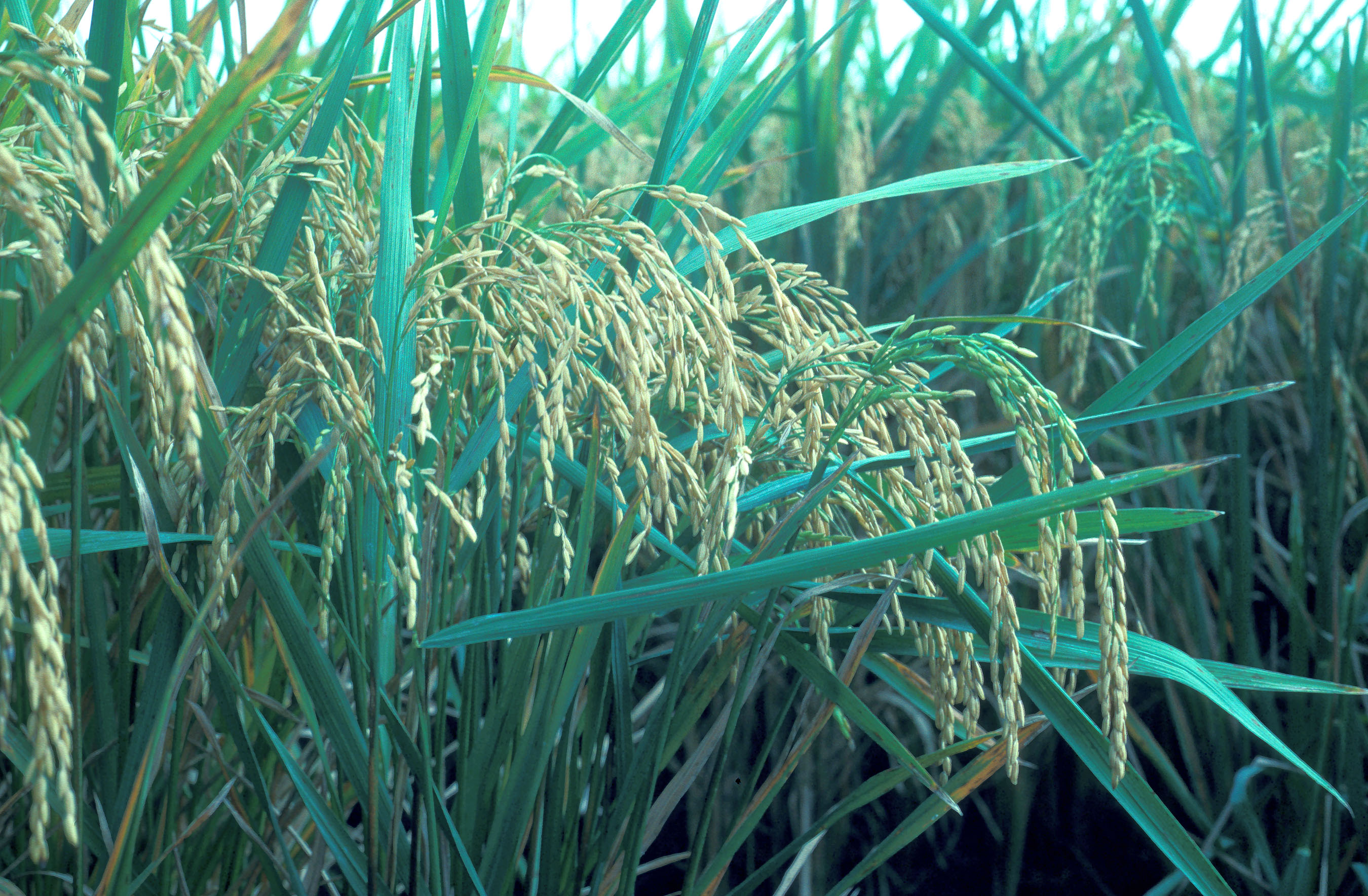 Lemont rice from Image Number K2958-2 Lemont was the first high-yielding semidwarf rice variety that matured early and had high milling yields. Photo by David Nance.